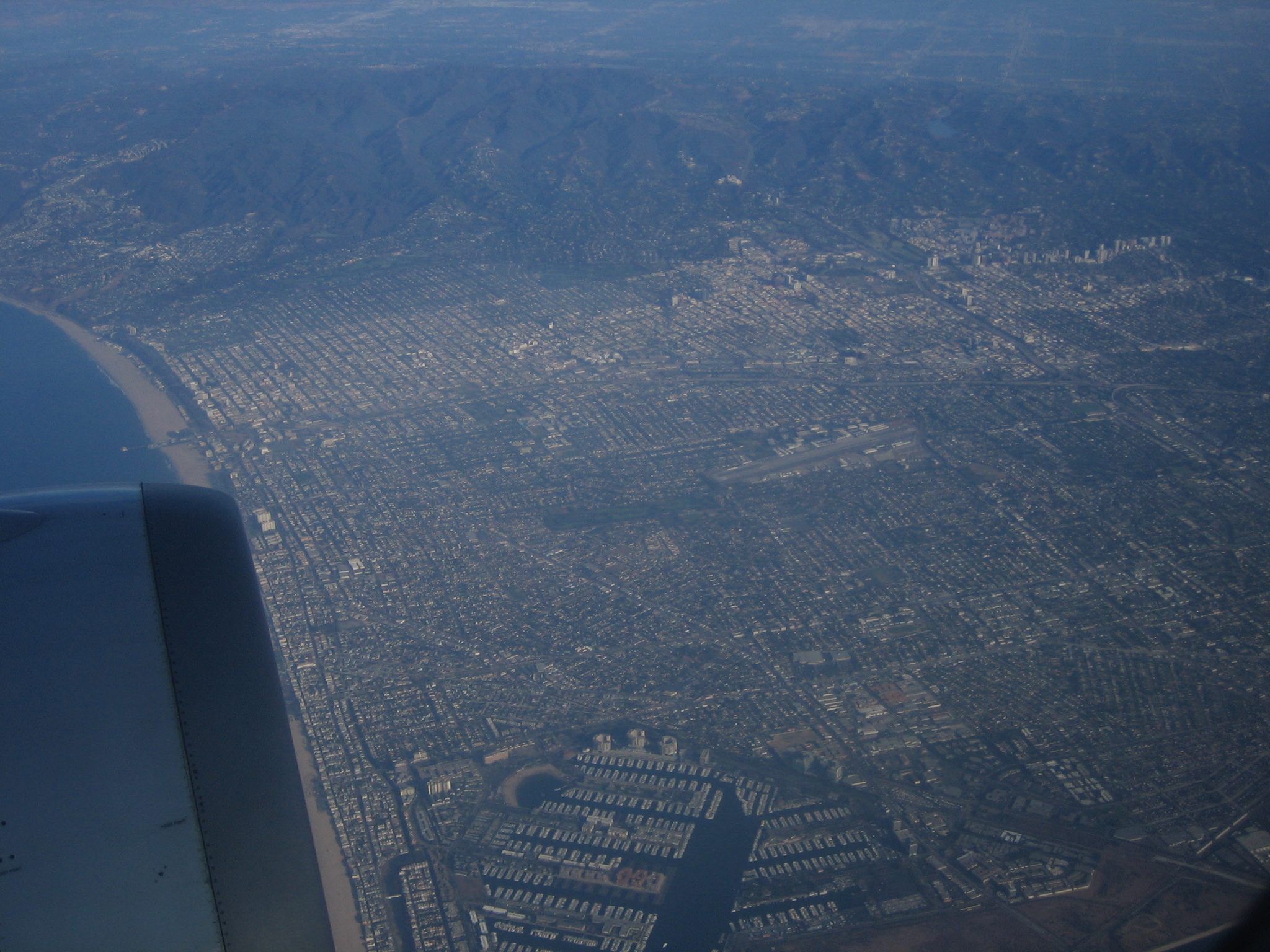 From I took this picture looking North from a jet airliner, shortly after take off from LAX. Santa Monica can be seen in the upper left quadrant, along with Santa Monica Airport in the center. Westwood is visible in the upper right quadrant. The San Fernando Valley is visible in the background behind the mountains in the upper portion of the image. Marina del Rey is visible in the foreground.